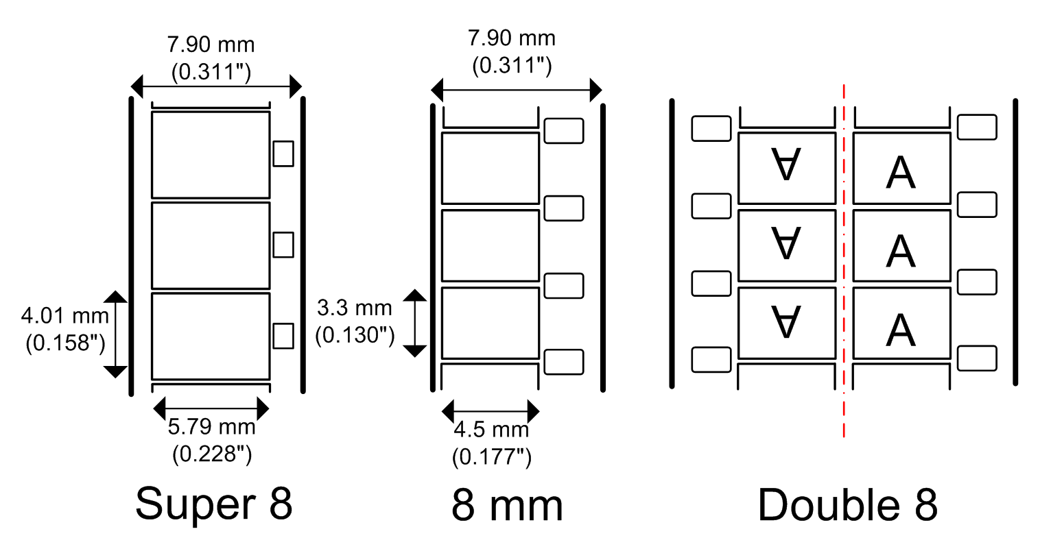 Super 8, 8mm and double 8 mm film formats side by side.